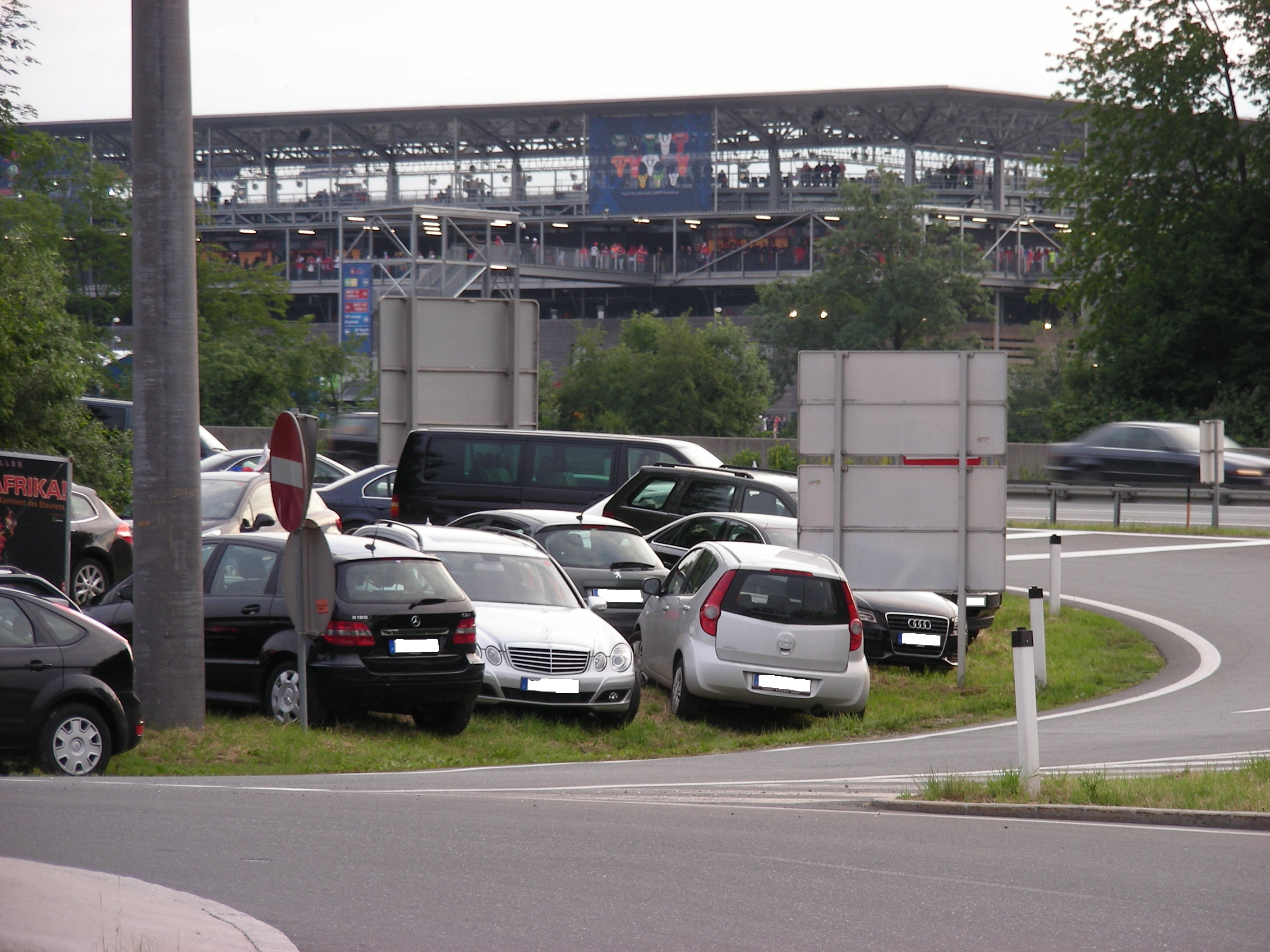 Cars parking at the Red Bull Arena before the match between Greece and Russia at the Euro 2008.